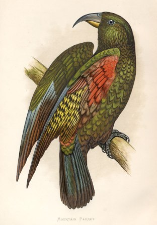 Kea Nestor notabilis.